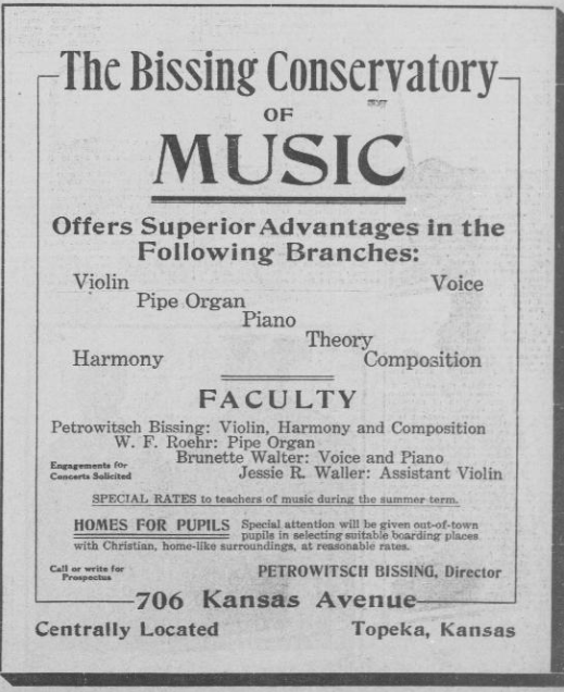 An advertisement in a newspaper for the Bissing Conservatory of Music. Published The Topeka state journal., July 17, 1909, LAST EDITION, Page 7, Image 7